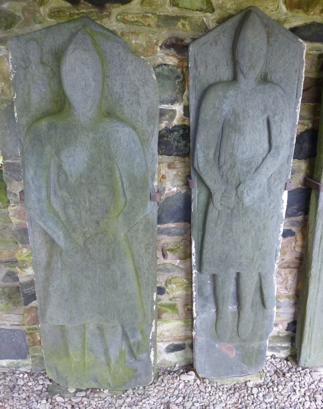 Kilberry Sculptured Stones, Kilberry, Argyll and Bute, Scotland. Effigies.